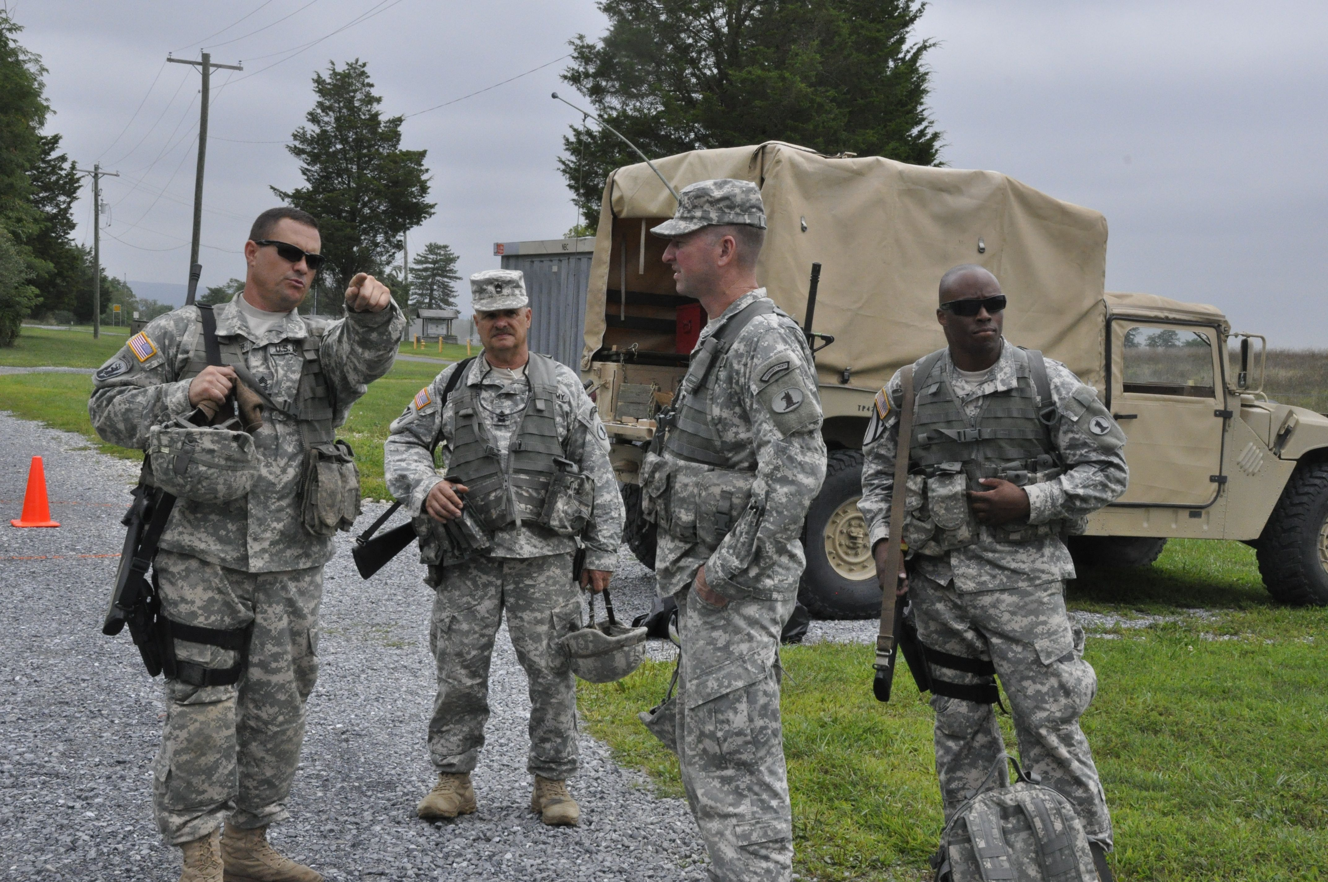 The Delaware National Guard's Charlie Team; Master Sgt. Mark Shroeder, Master Sgt. James Greenplate, Lt. Col. Robert Sullivan and Sgt. Terrence Whitley; plan their strategy for the MAC II Regional Marksmanship Sustainment Exercise bianchi battle at Fort Indiantown Gap, Pa., Aug. 22, 2014. (U.S. Army National Guard photo by Officer Candidate Wendy McDougall/Released)